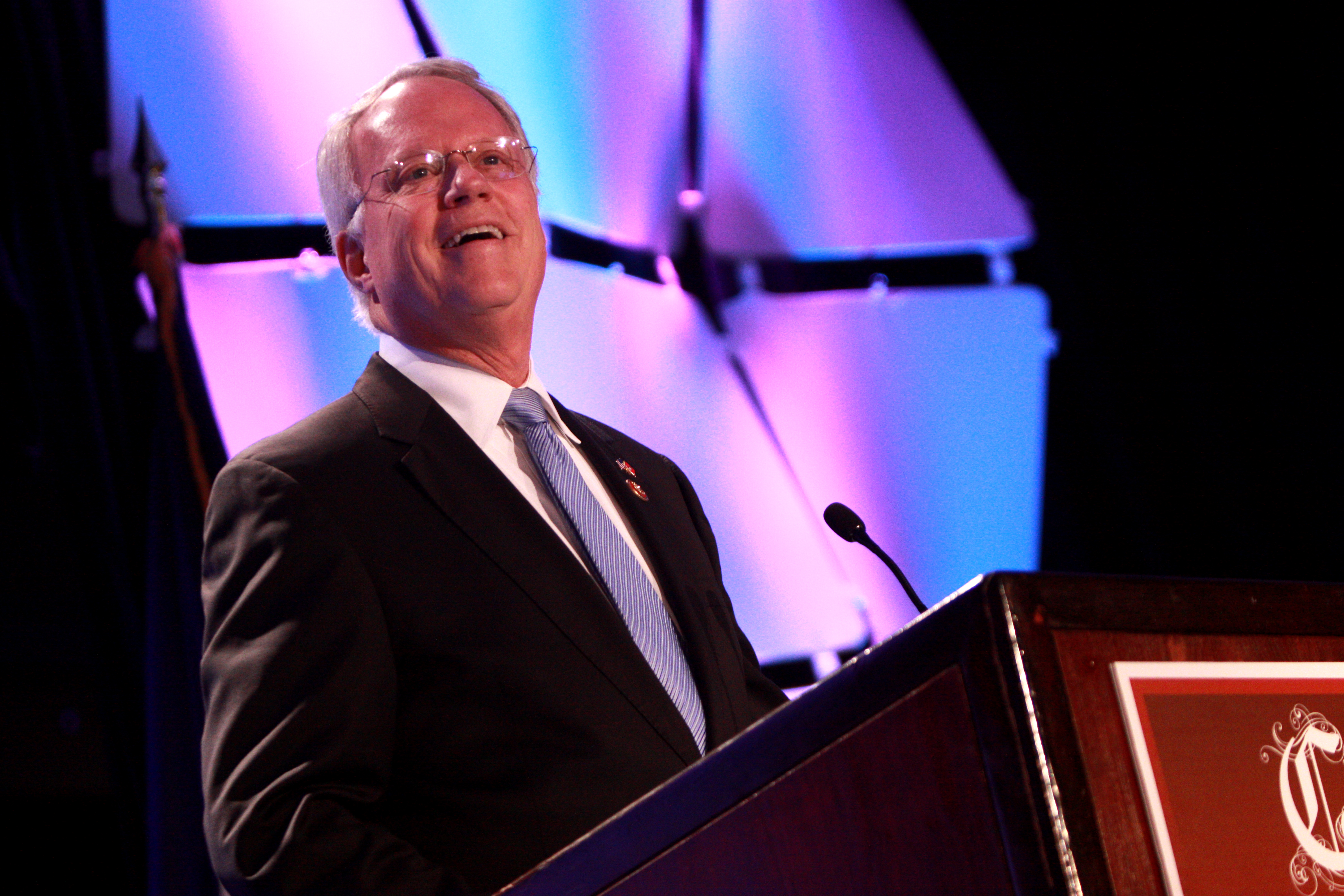 Congressman Paul Broun of Georgia speaking at the 2013 Liberty Political Action Conference (LPAC) in Chantilly, Virginia.